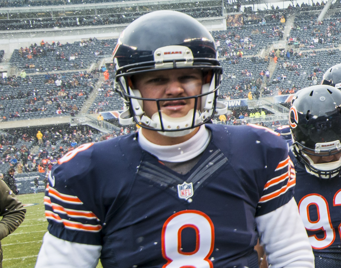 Chicago Bears quarterback, Jimmy Clausen, in a game against the Minnesota Vikings on November 16, 2014.